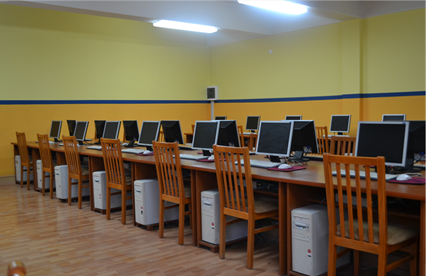 A practical class of "11 Marsi" school